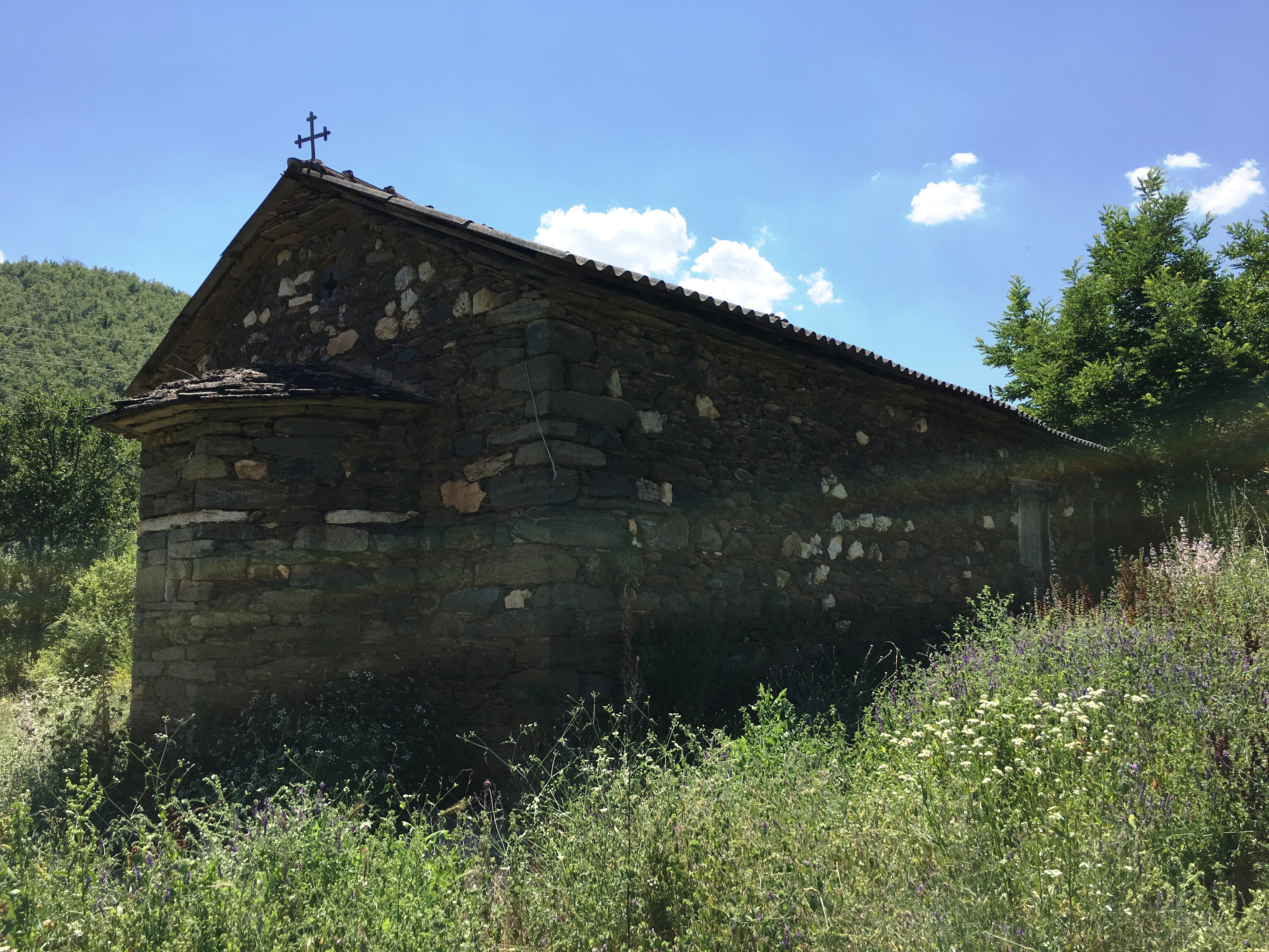 Holy Mother of God Church near the village of Gorni Manastirec